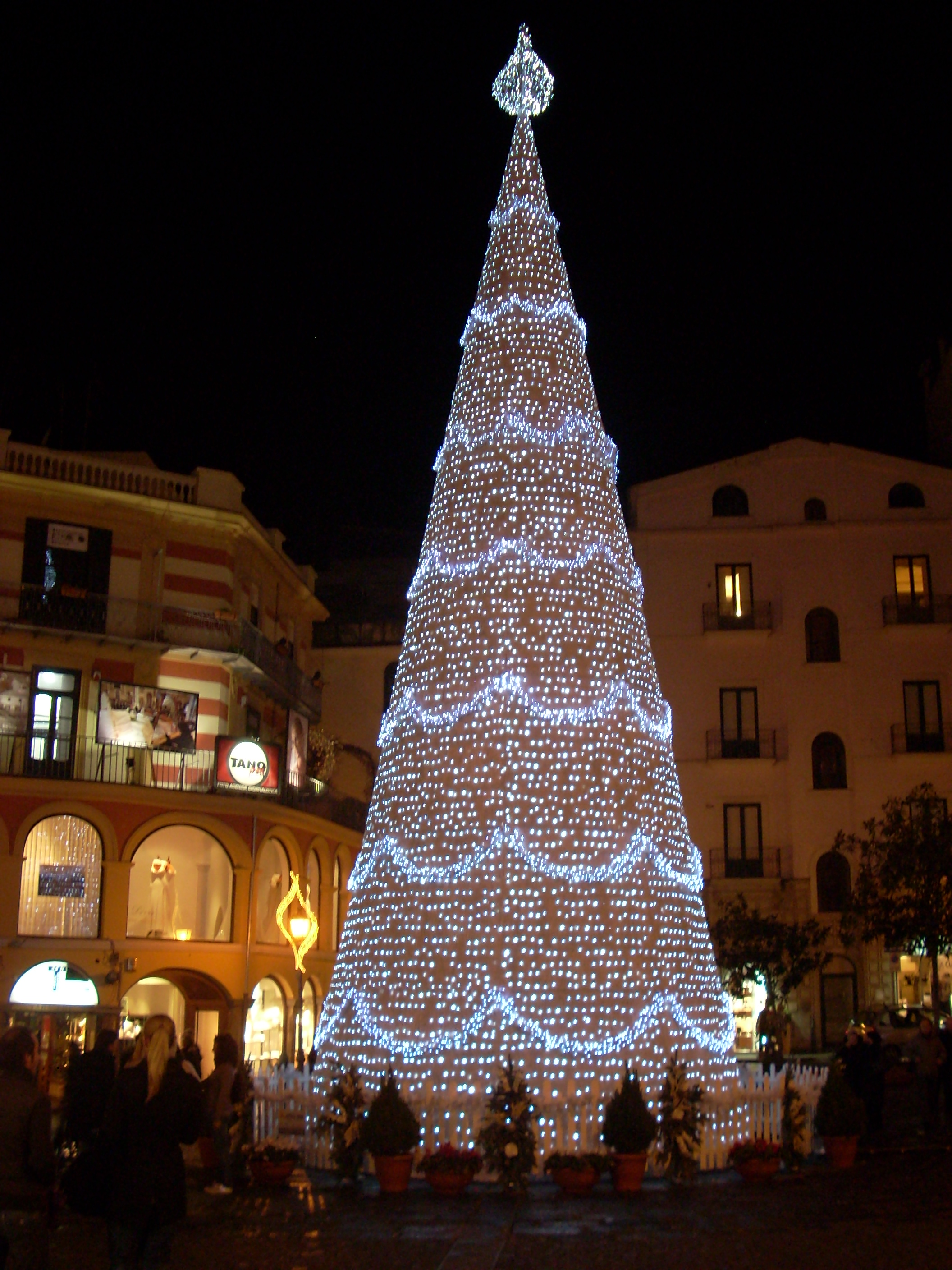 Christmas tree in Piazza Portanova, Salerno old town, Italy. Christmas 2008.